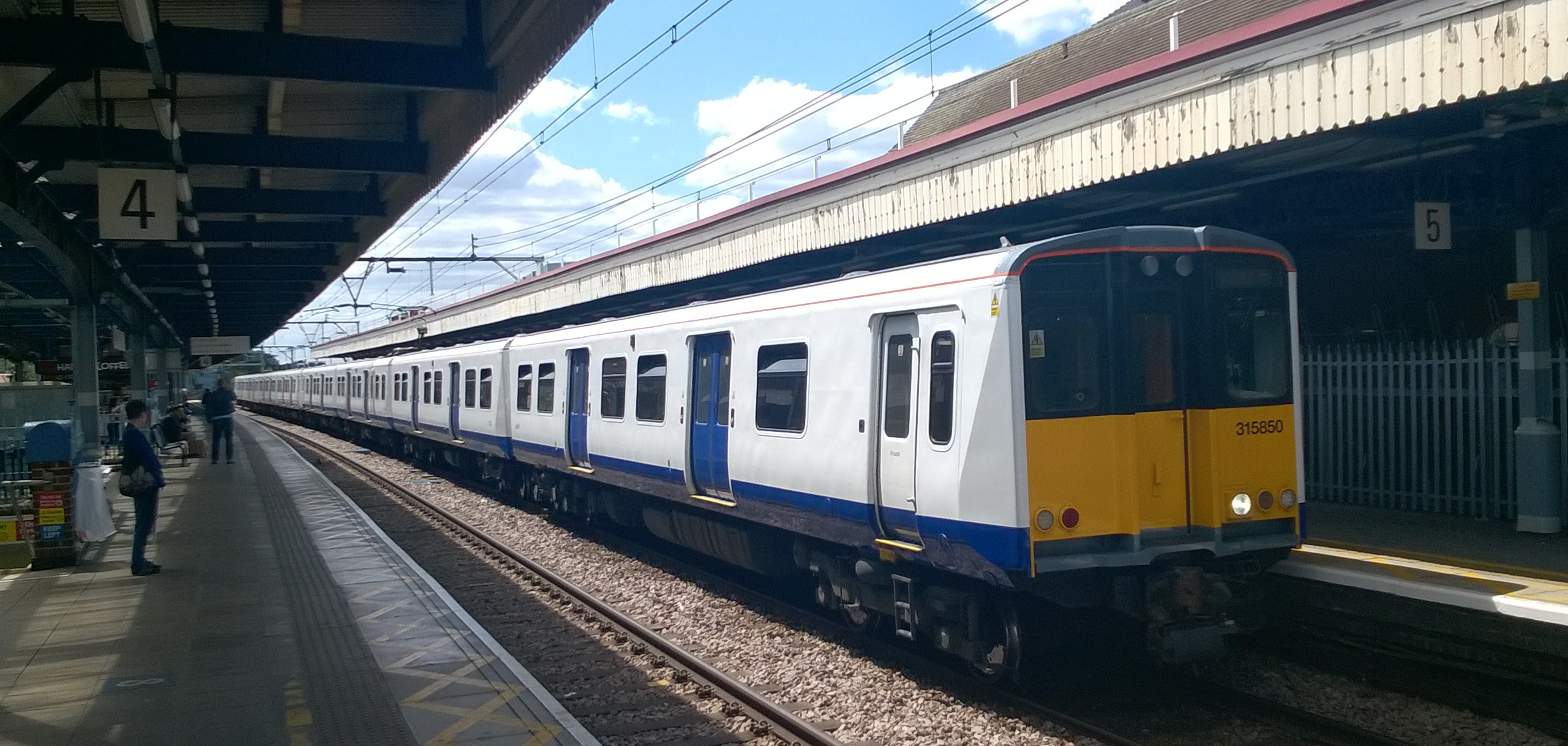 TfL Rail Class 315 unit 315850 at Romford station